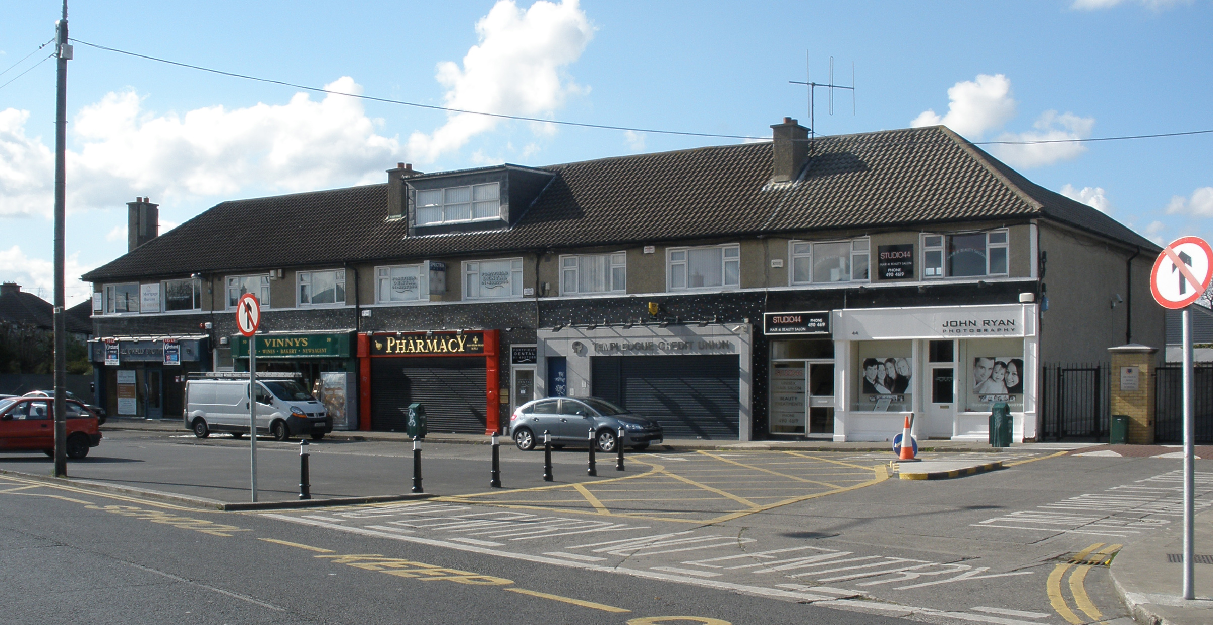 Shops at Fortfield Park in Templeogue, Dublin, Ireland. The shops are shut for Good Friday.